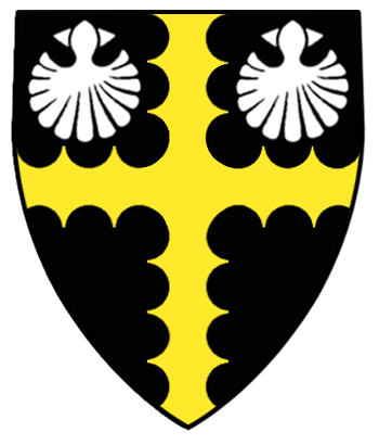 Coat of arm of John de Ufford: Sable, a cross engrailed or in chief two escallops argent